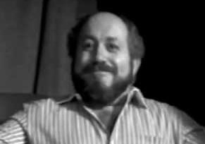 Octavio Fabiano- cineasta argentino